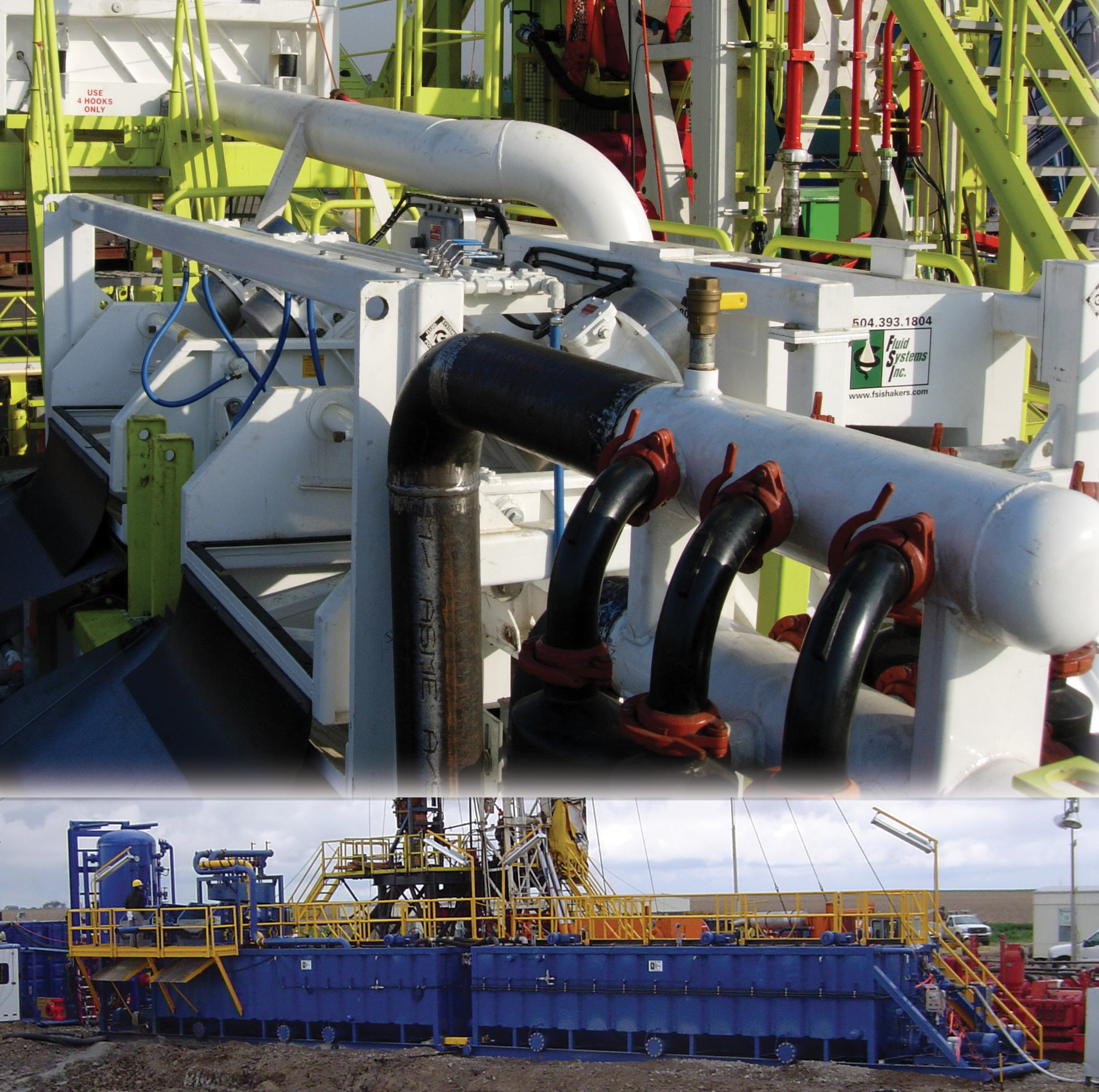 Mud Systems for Drilling Rigs